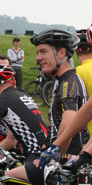 Nick Craig on the start line at the British National Mountain Biking Marathon Championships 2008 at Margam Park.